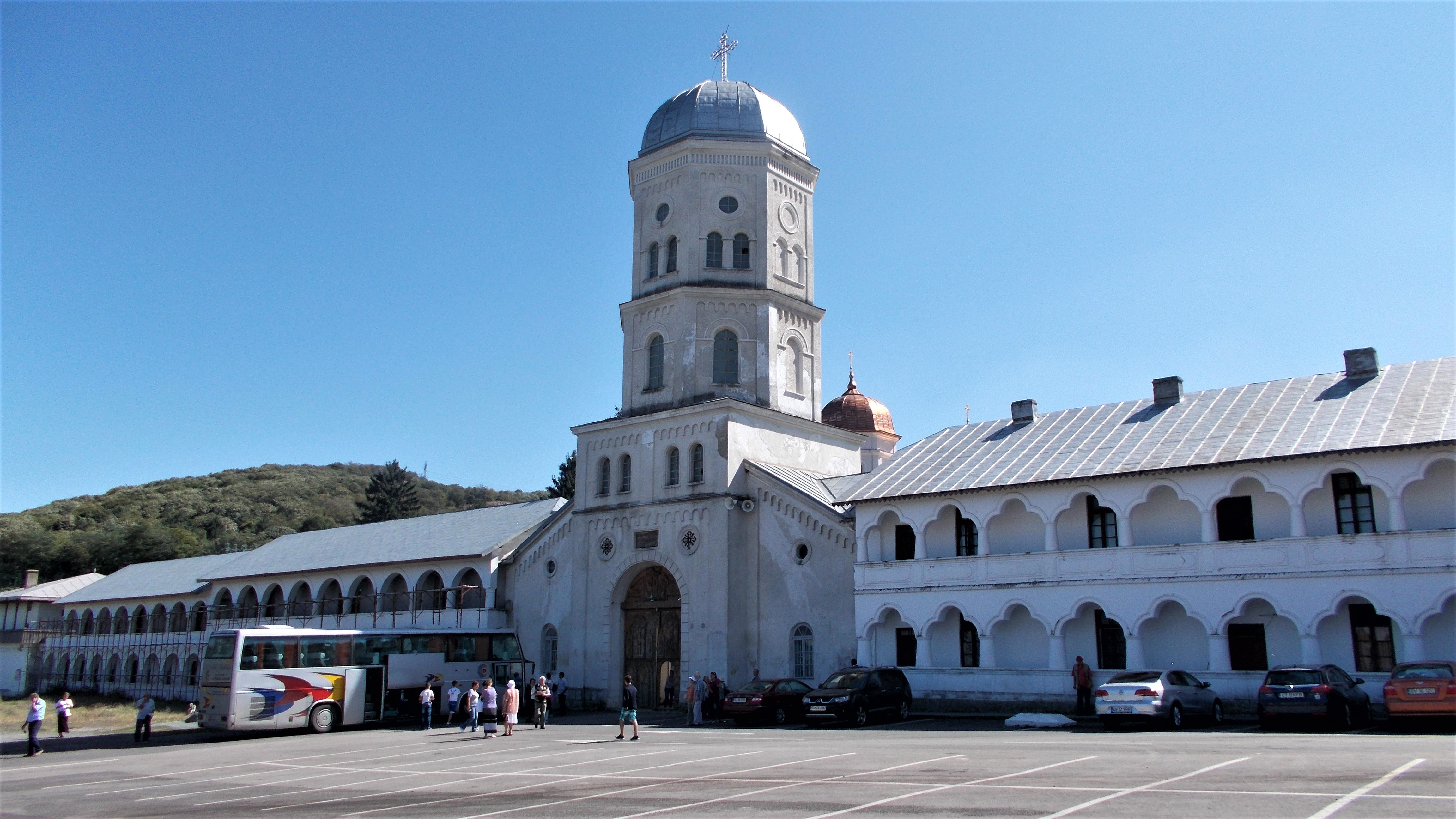 Cocoșu Monastery, Tulcea County, Romania